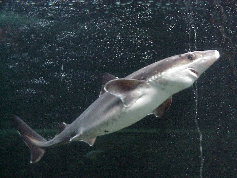 Spiny dogfish (Squalus acanthias) at the animal house in Hokitika